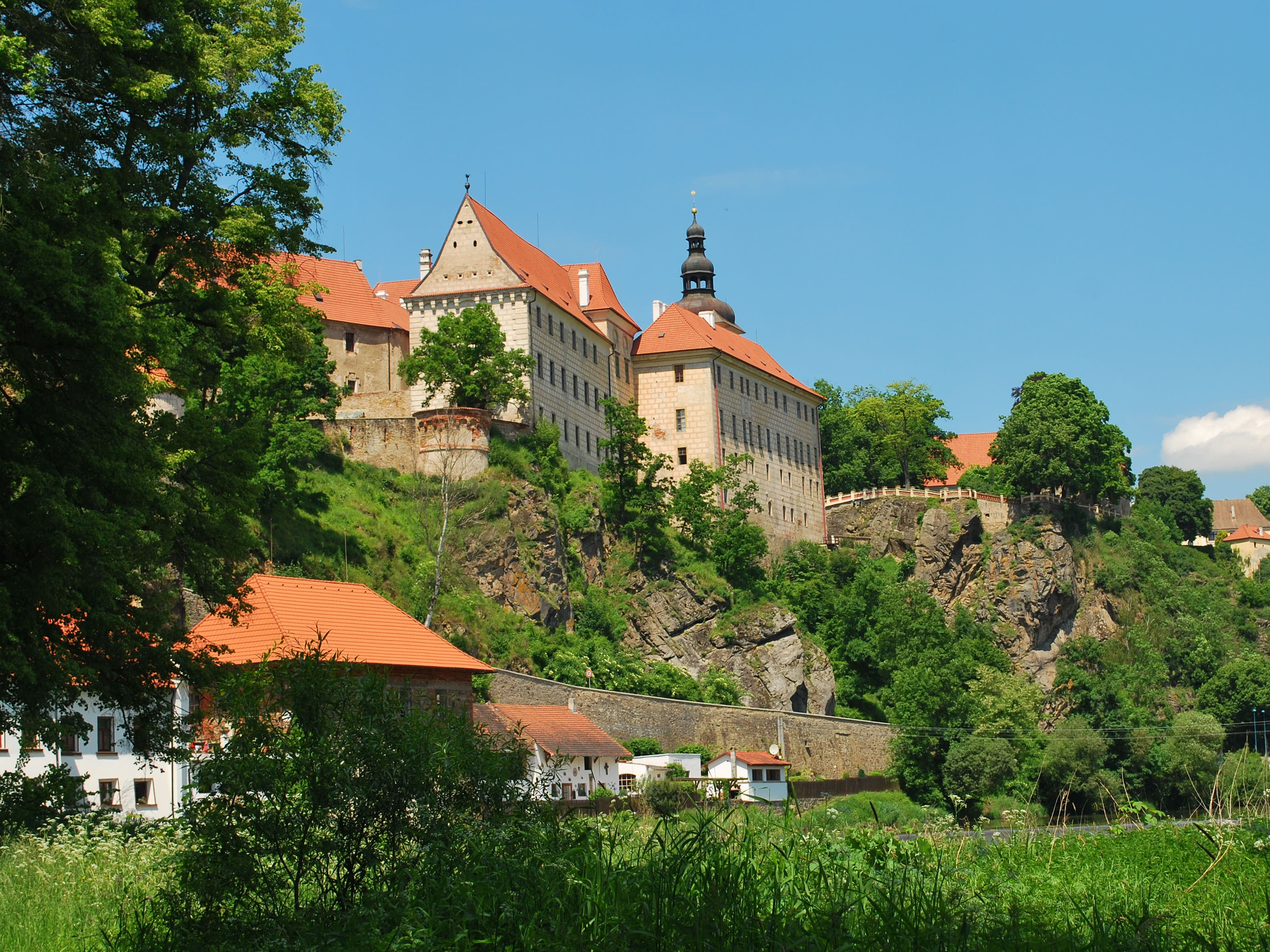 Bechyně